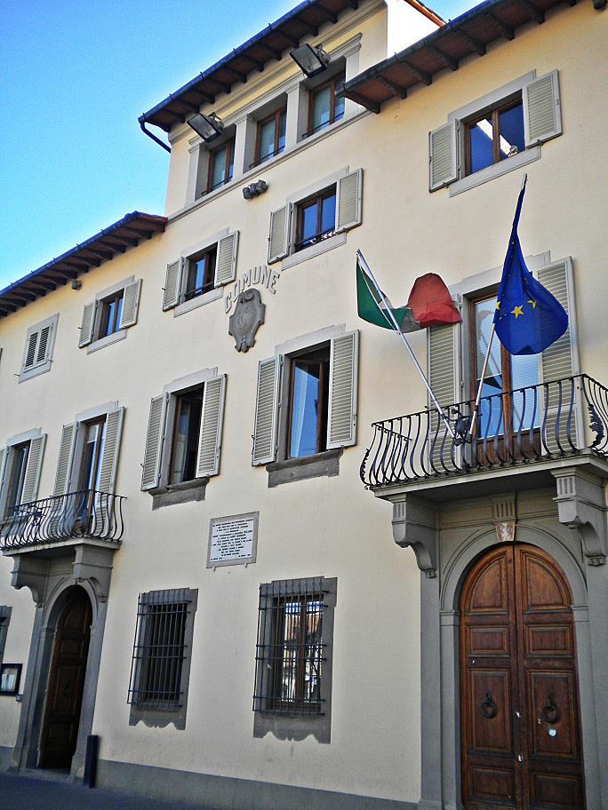 Town hall